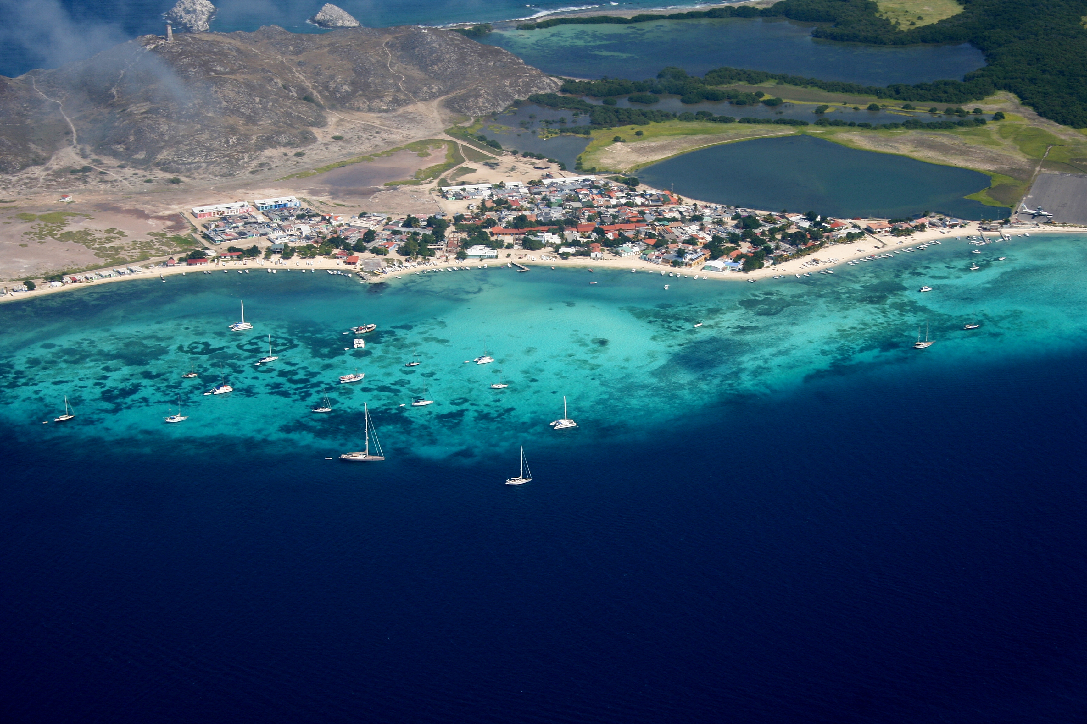 Aerial view of the Gran Roque village, the largest settlement of the Los Roques archipelago (Venezuela). On the upper left corner of the image, El Faro Holandés (The Dutch Lighthouse, built between 1870 and 1880) is visible.